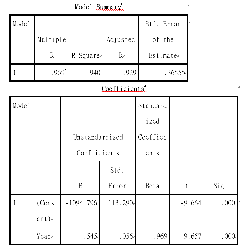 Model Summary